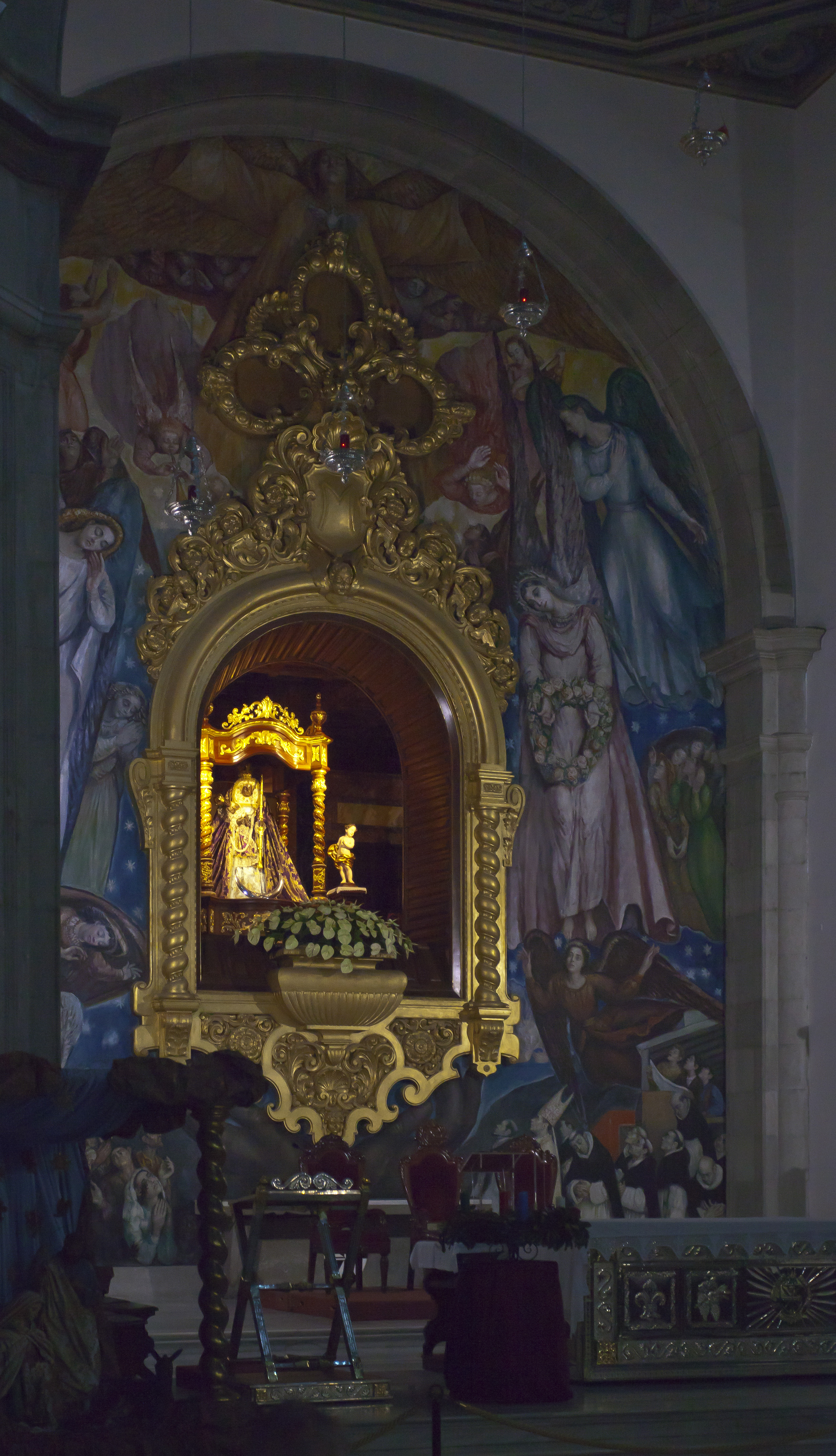 Basilica of Nuestra Señora de la Candelaria, Candelaria, Tenerife, Spain